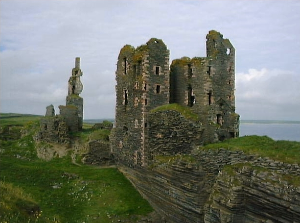 The ruins of Sinclair and Girnigoe Castle nearby Wick in Scotland